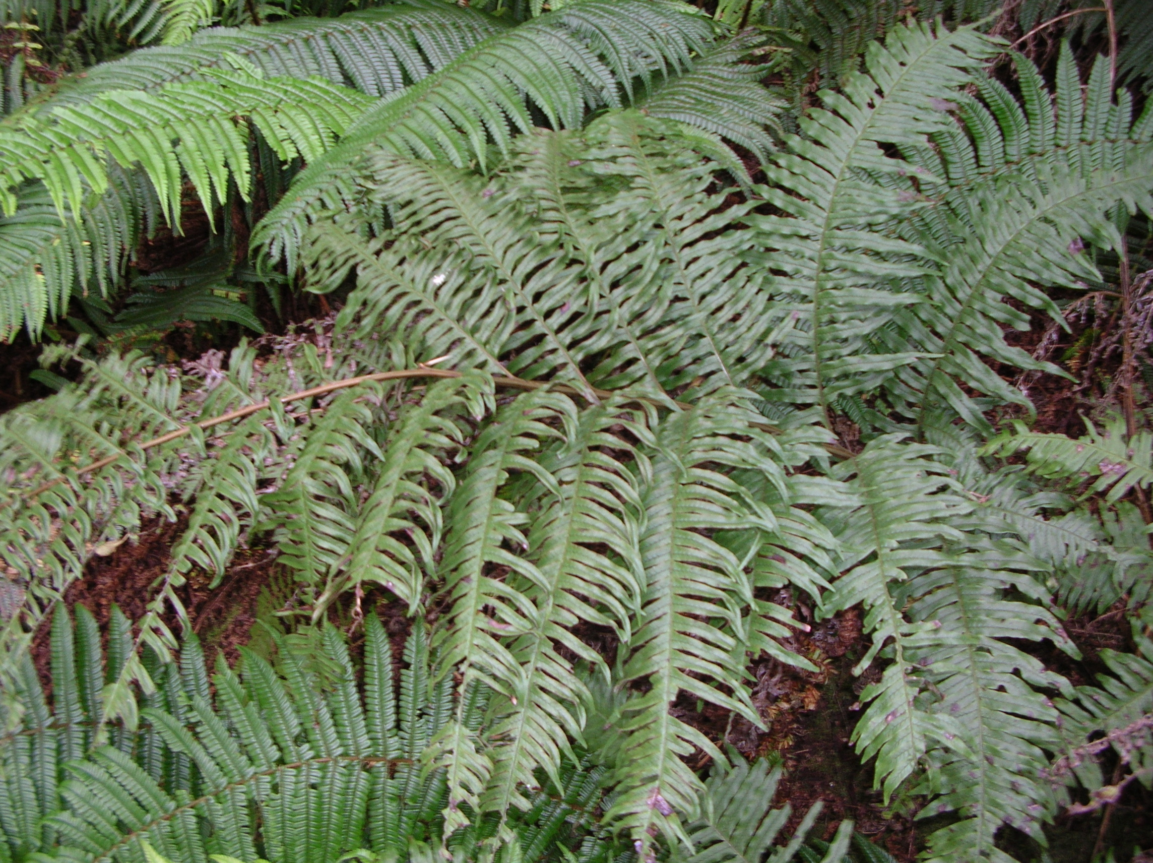 Pteris excelsa (Plum trail). Location: Maui, Polipoli